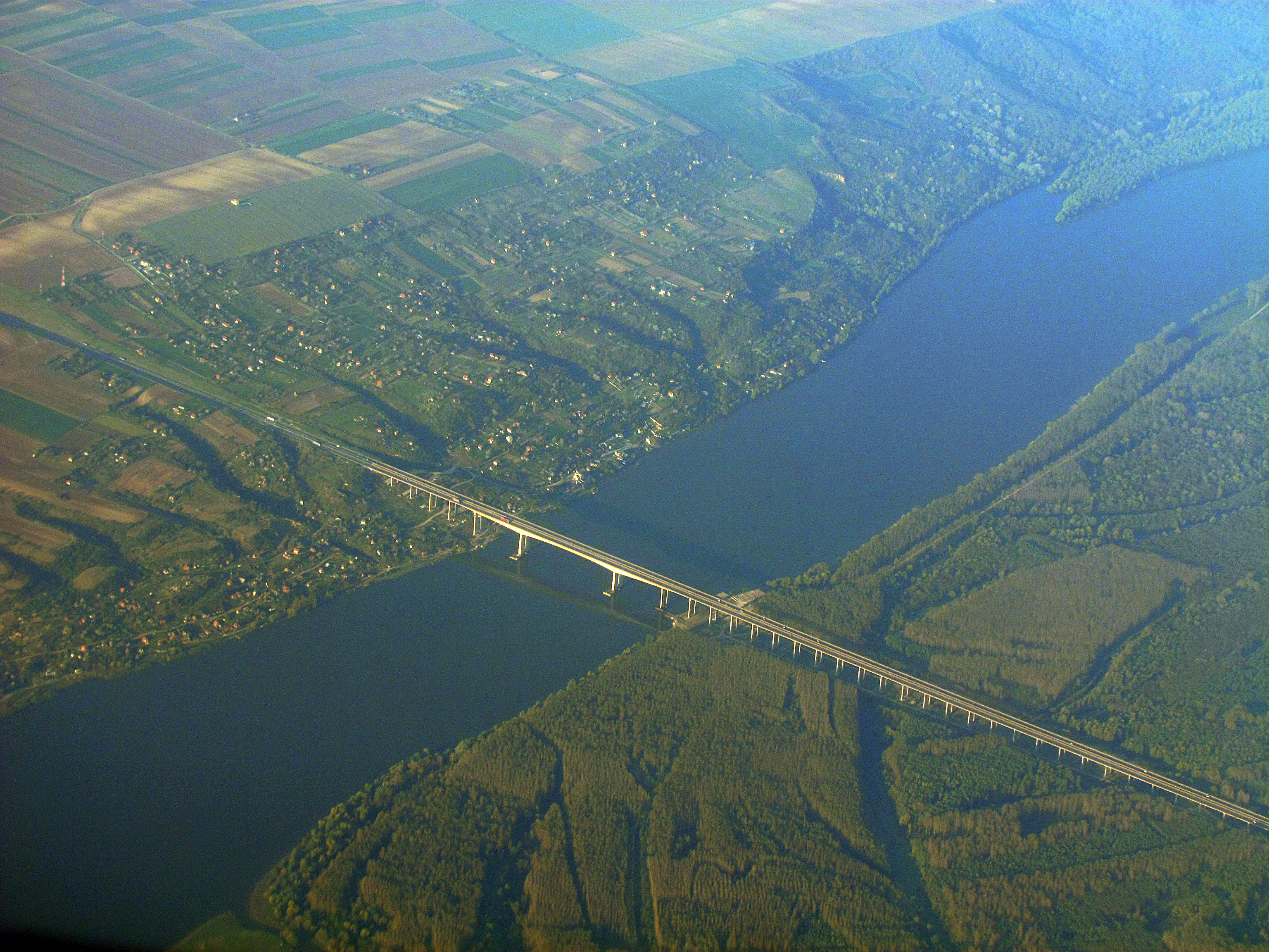 Beška bridge over Danube river